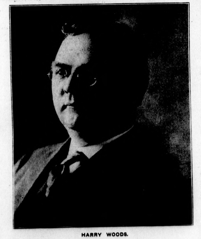 Harry Woods